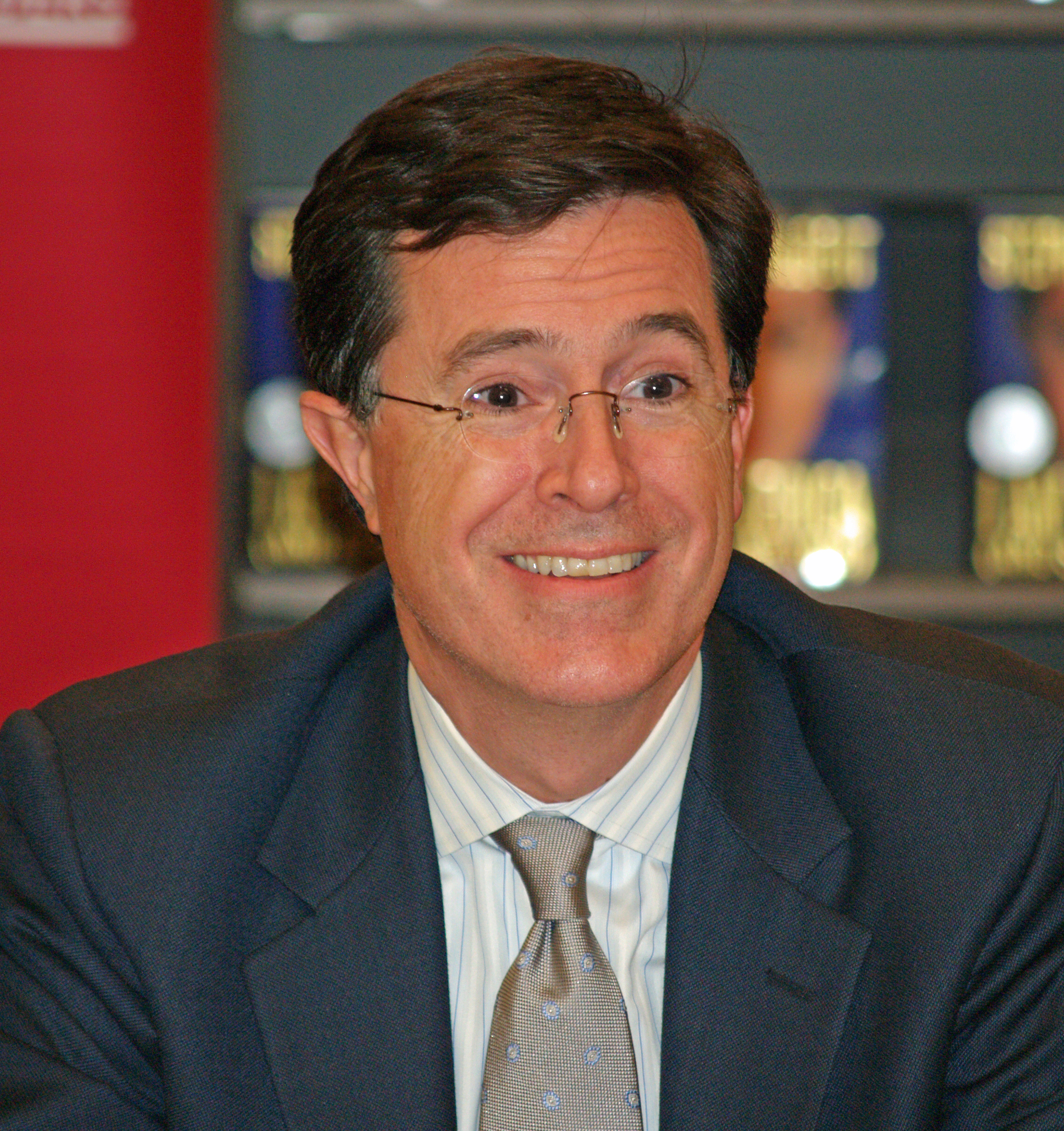 Stephen Colbert in New York City at Border's signing copies for his book "I Am America (And So Can You!)